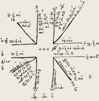 Pictoral representation of a Greek horoscope constructed by the philosopher Eutocius, at Alexandria in 497 AD. Detail from the chart presented in L 497 in Otto Neugebauer and Henry B. Van Hoesen's Greek Horoscopes.